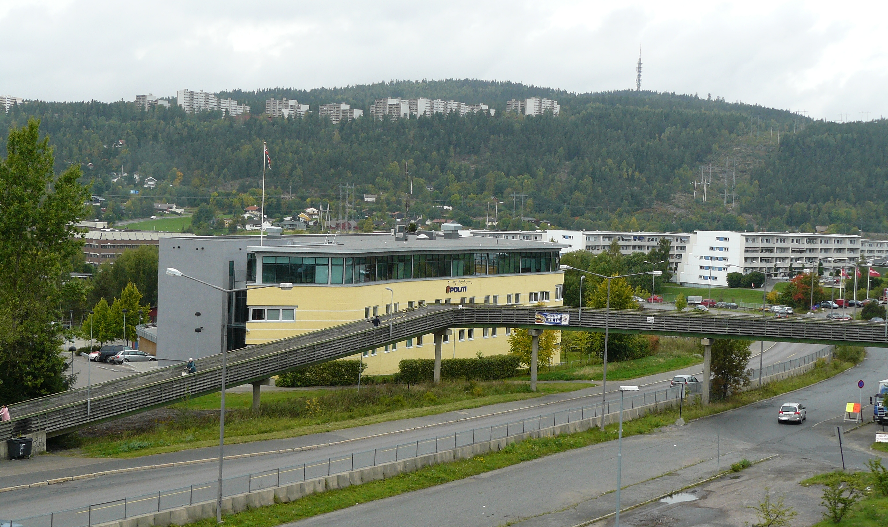 Stovner police station in Oslo, Norway